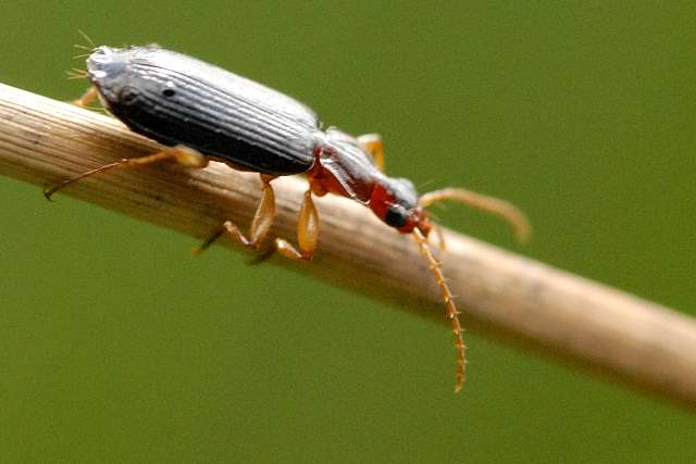 Dromius agilis from Commanster, Belgian High Ardennes .